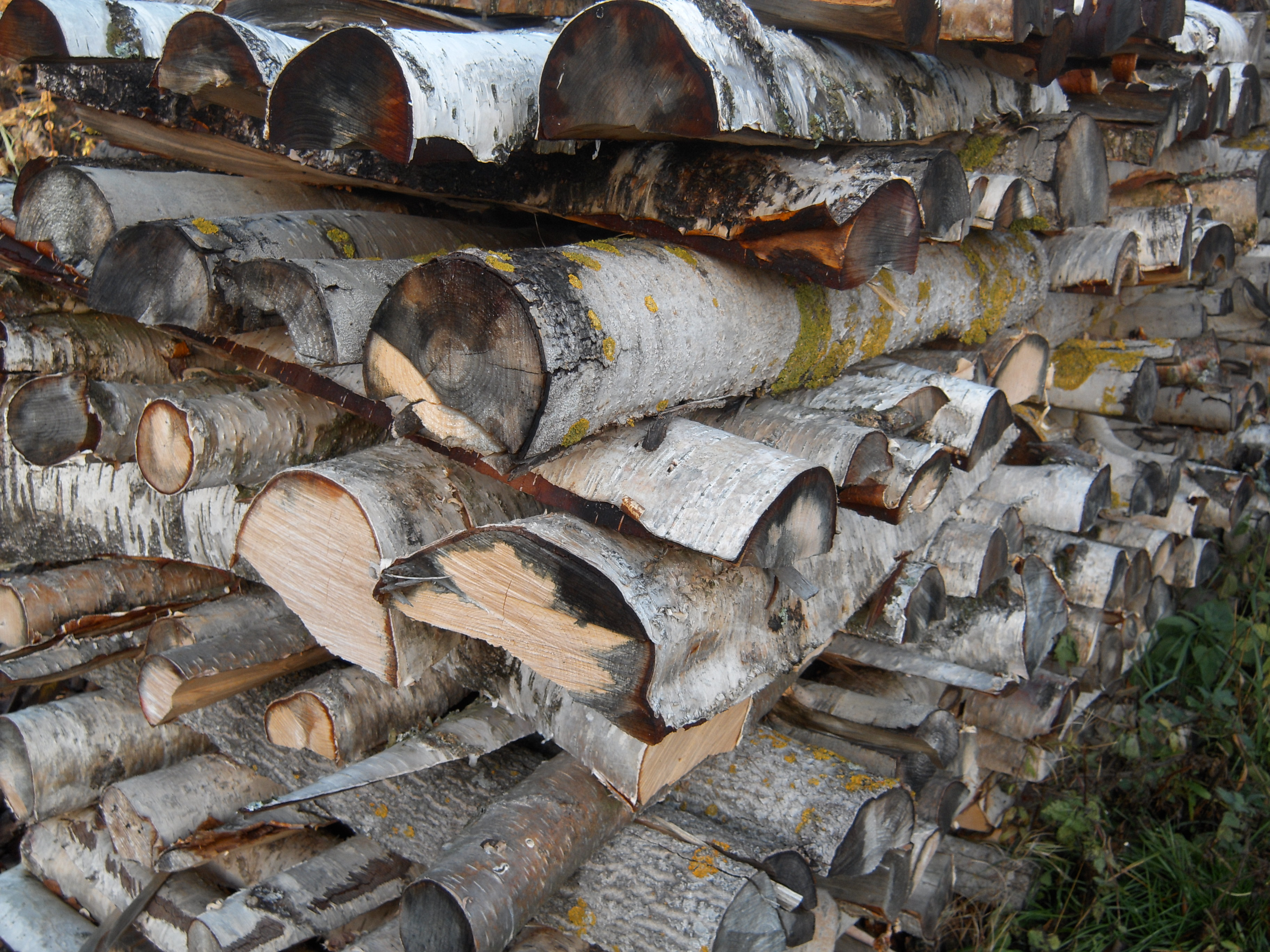 A stack of European White Birch firewood in Himanka, Central Ostrobothnia, Finland.